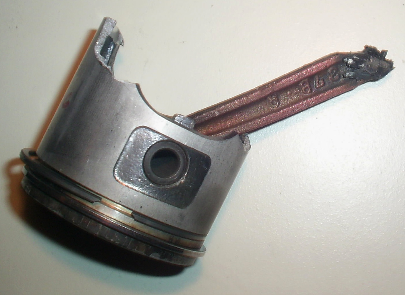 Picture of a broken piston and connecting rod from a scooter. DR Racing Parts 65 cc piston, standard Suzuki Katana AY50 connecting rod (Morini two-stroke engine).